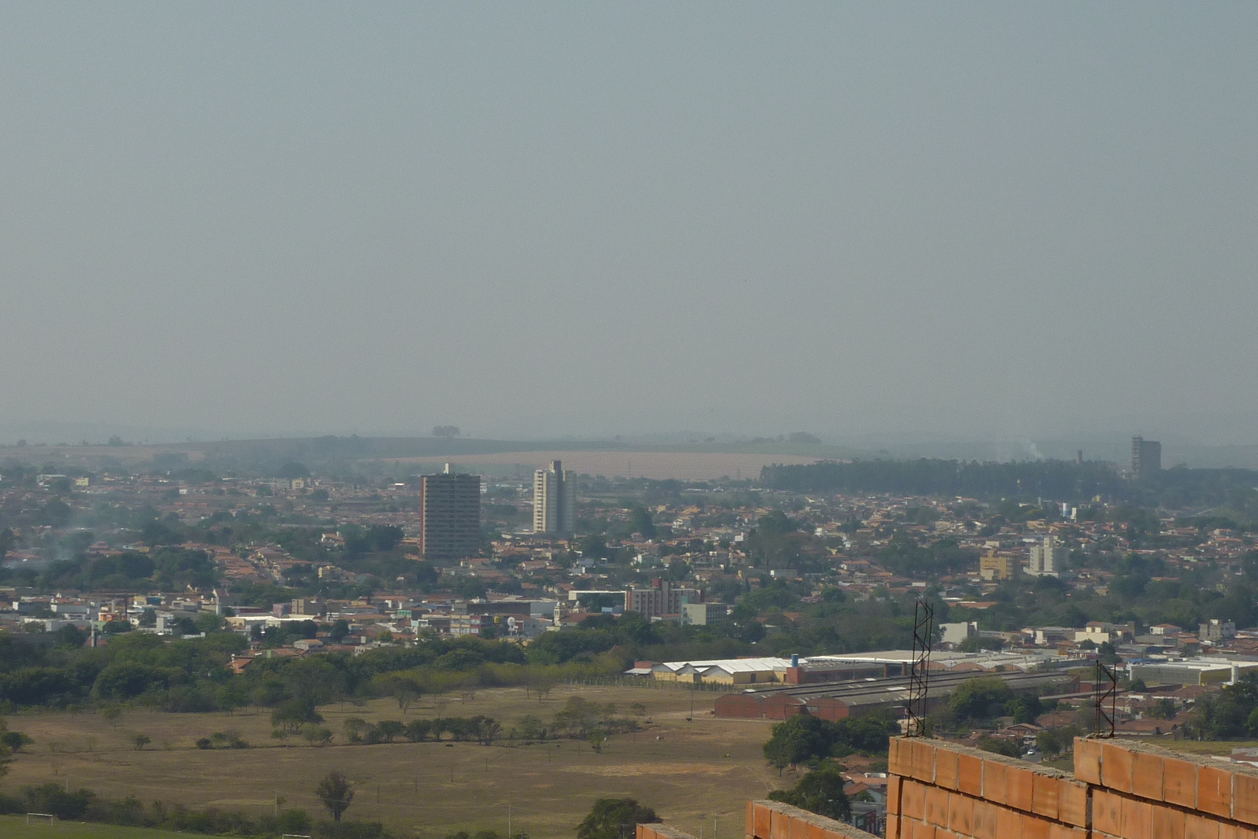 View of Mogi Guaçu